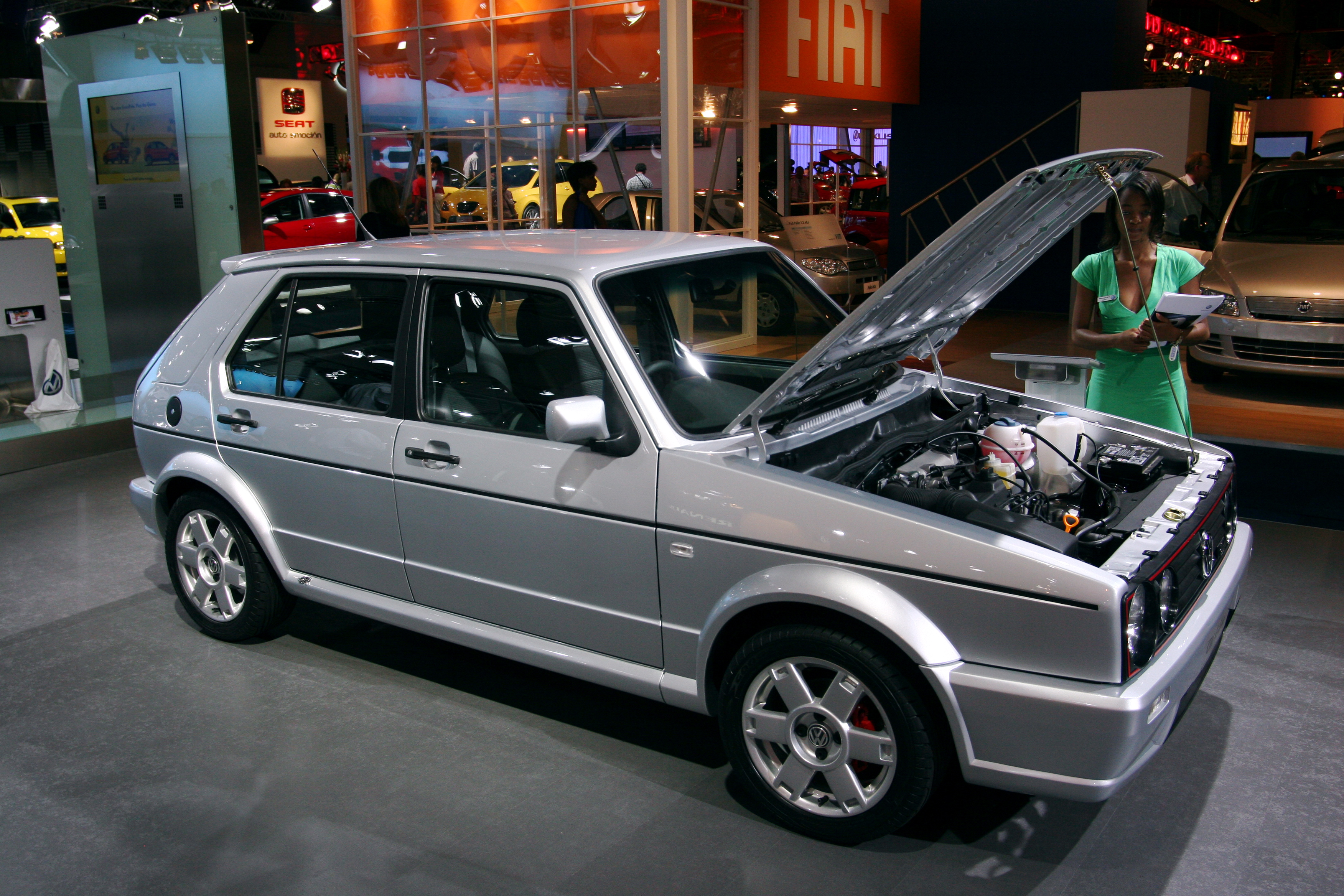 VW Citi Golf R-Line